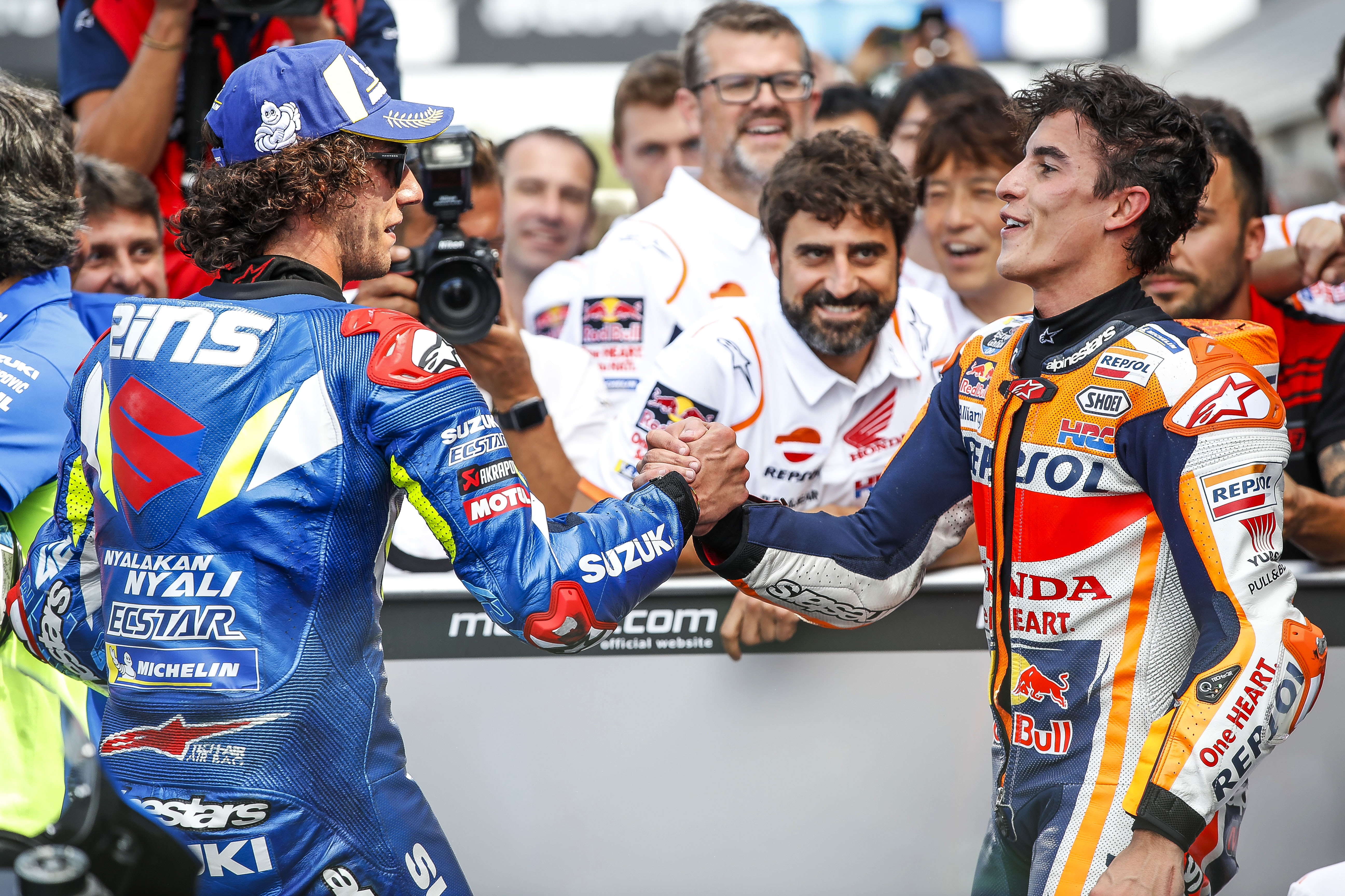 Álex Rins and Marc Márquez, congratulating each other at parc fermé after finishing in first and second place at the 2019 British Grand Prix.